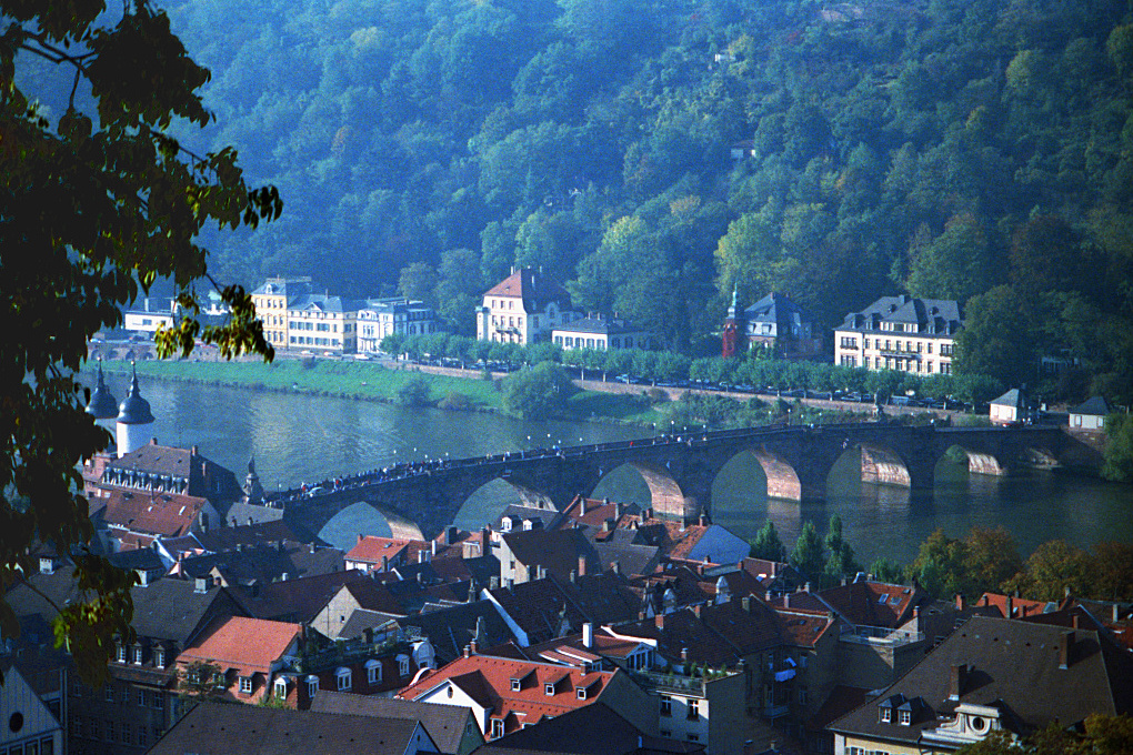 Heidelberg, Germany, the Old Bridge (Alte Brücke) crosses the Neckar River as viewed from the Castle (Schloss).